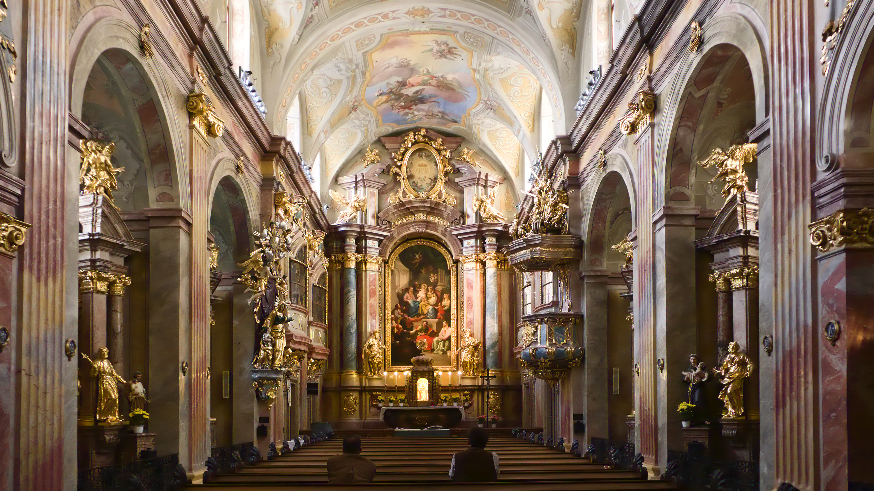 Annagasse in Vienna Inner City, Haus Nr.3b Sankt Anna(Wien)